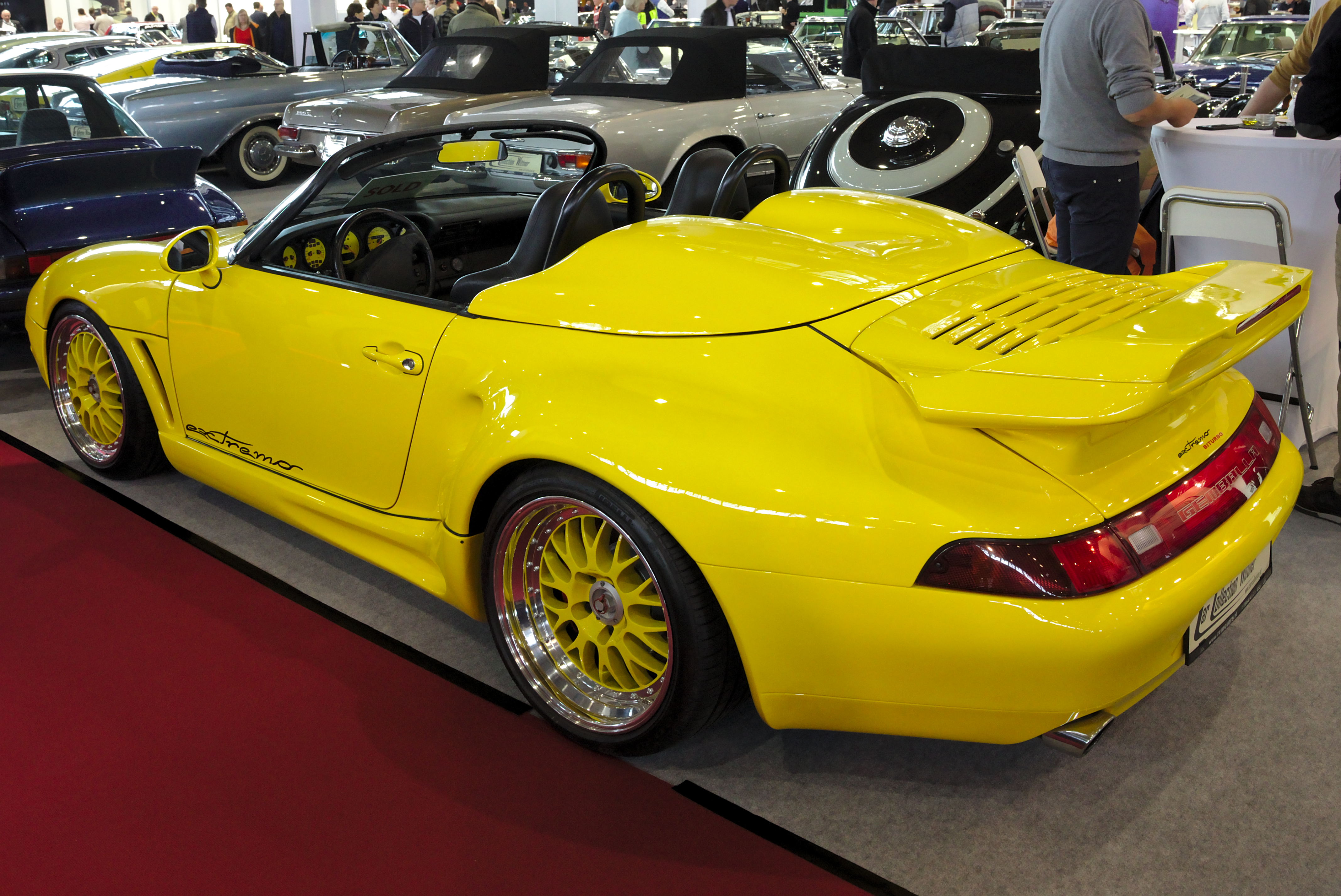 Porsche 993 Gemballa Biturbo Speedster at Retro Classics 2019